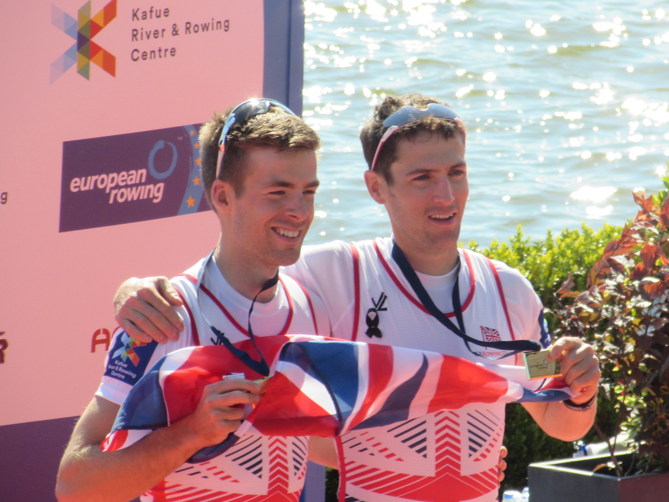 Sam Scrimgeour (right) and Joel Cassells (left) at the 2016 European Rowing Championships in Brandenburg an der Havel, Germany